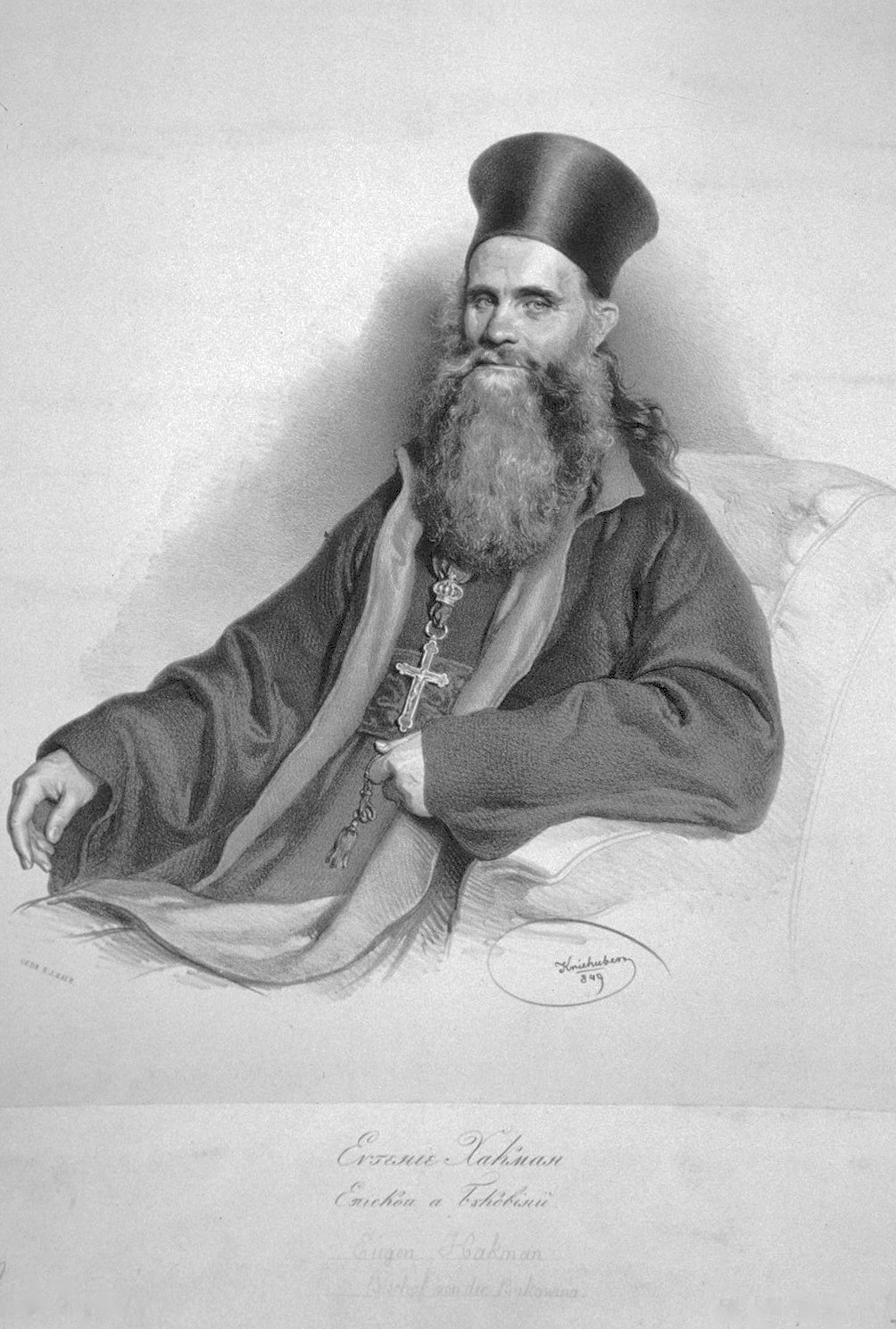 Eugen Hakman (1794-1873), Griechischer nicht-unierter Erzbischof und Metropolit von Czernowitz. Geheimrat, Mitglied des Herrenhauses und des Landtages der Bukowina.